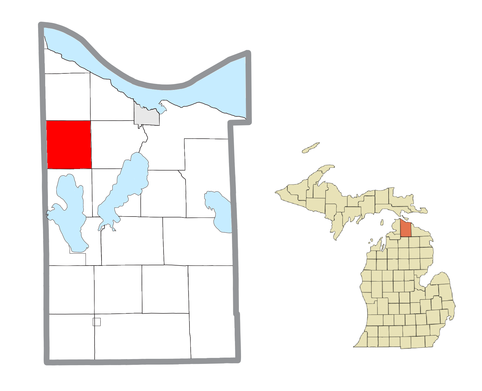 Munro Township, MI